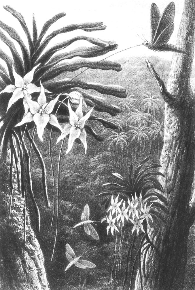 Sphinx Moth Fertilizing Angraecum Sesquipedale in the Forests of Madagascar